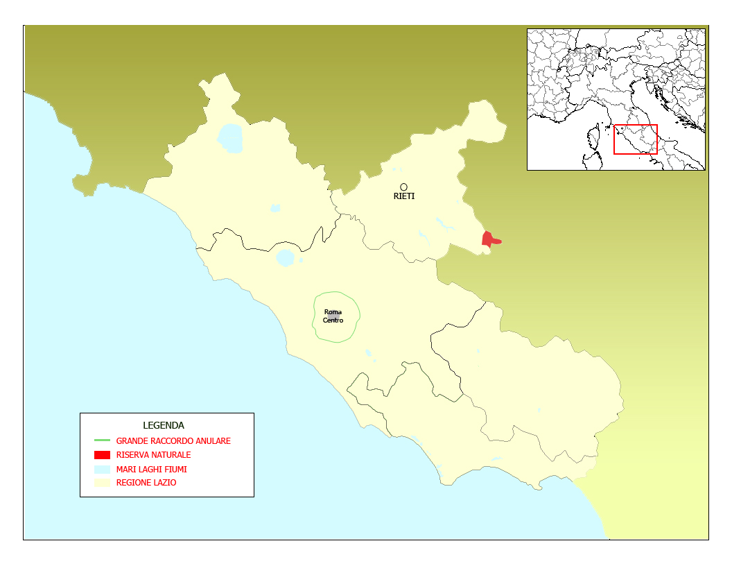 Map of Riserva regionale Montagne della Duchessa, Lazio, Italia